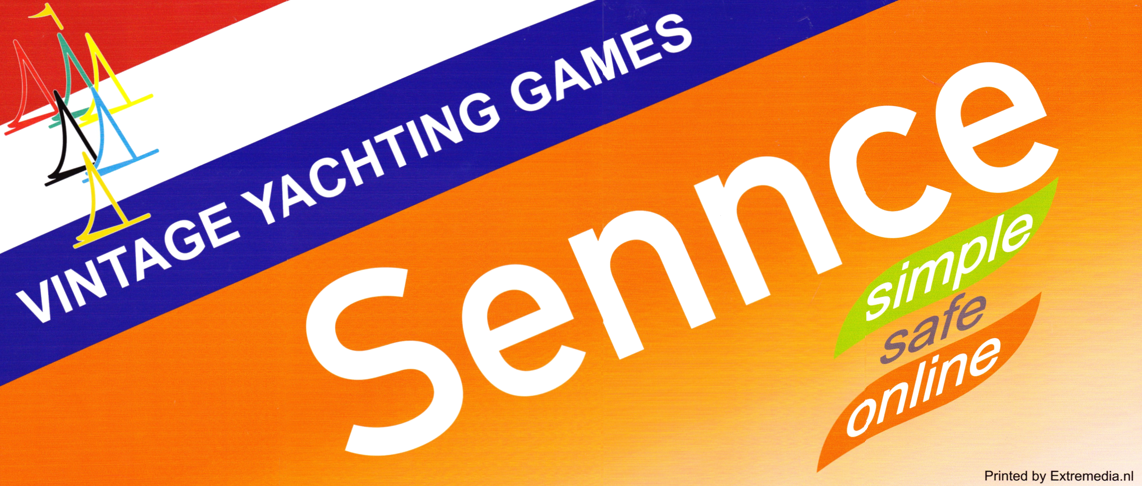 Sticker used on the bows of each participating boat in the Vintage Yachting Games 2008